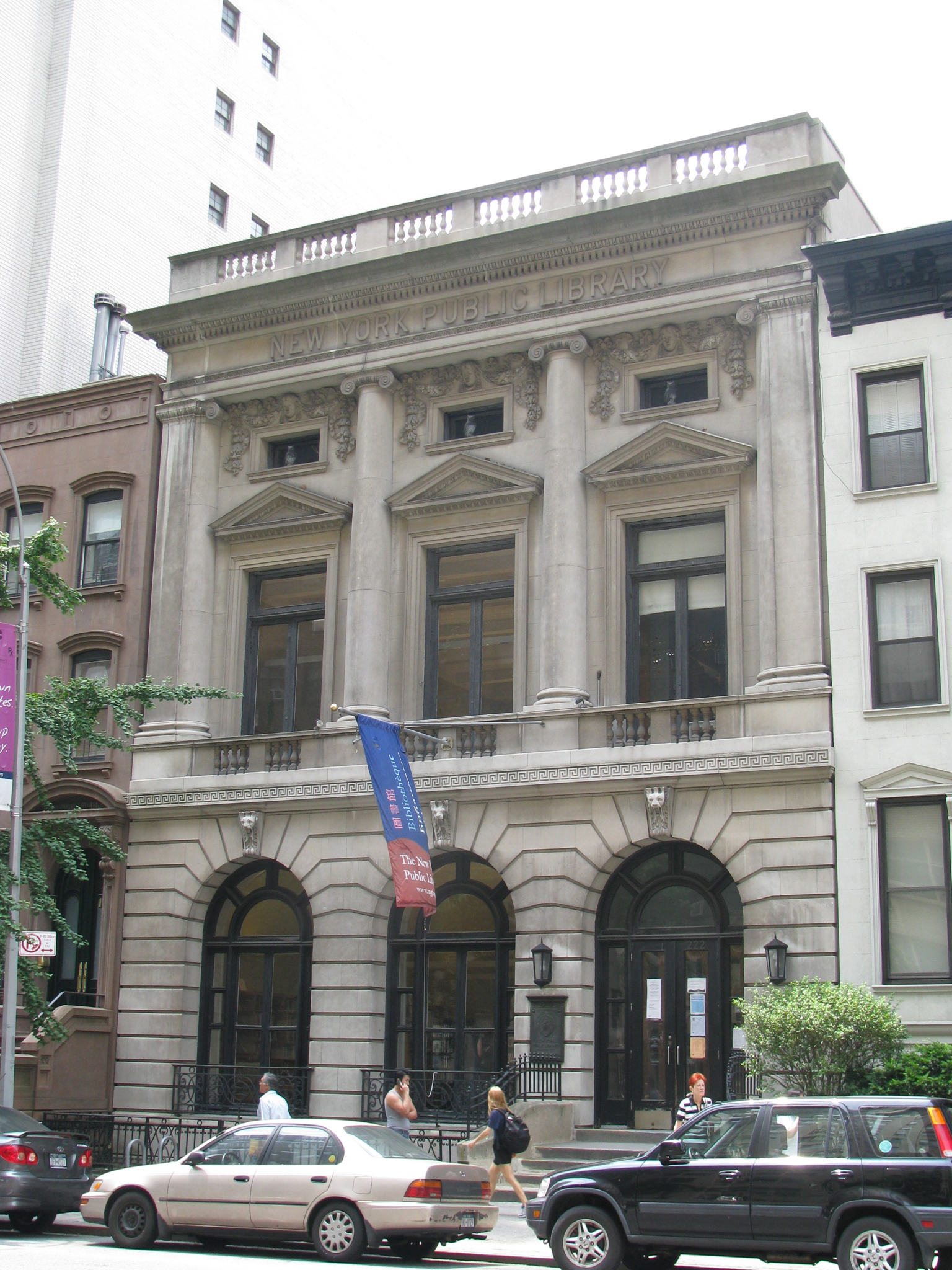 The Yorkville Branch of the New York Public Library, funded by Andrew Carnegie.